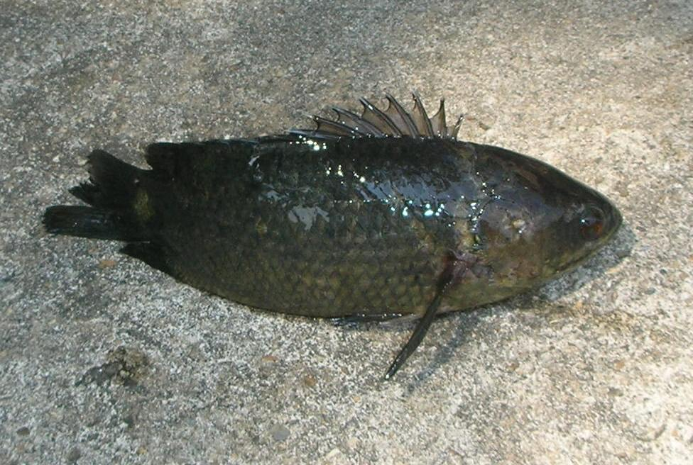 Pla mo (ปลาหมอ) at a riverside market in Ratchaburi Province, Thailand